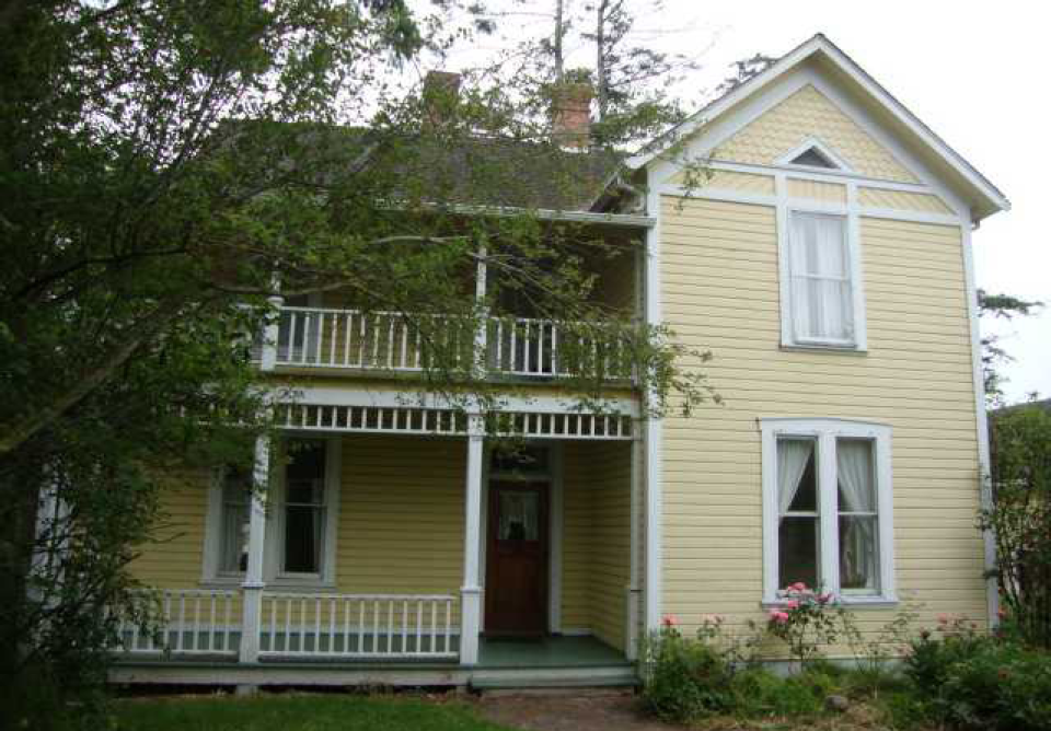 The Sergeant Clark House — in Coupeville and within the Ebey's Landing National Historical Reserve, in Island County, Washington. The 1892 wooden Victorian house is on the National Register of Historic Places in Island County. Contemporary image, taken in 2010.